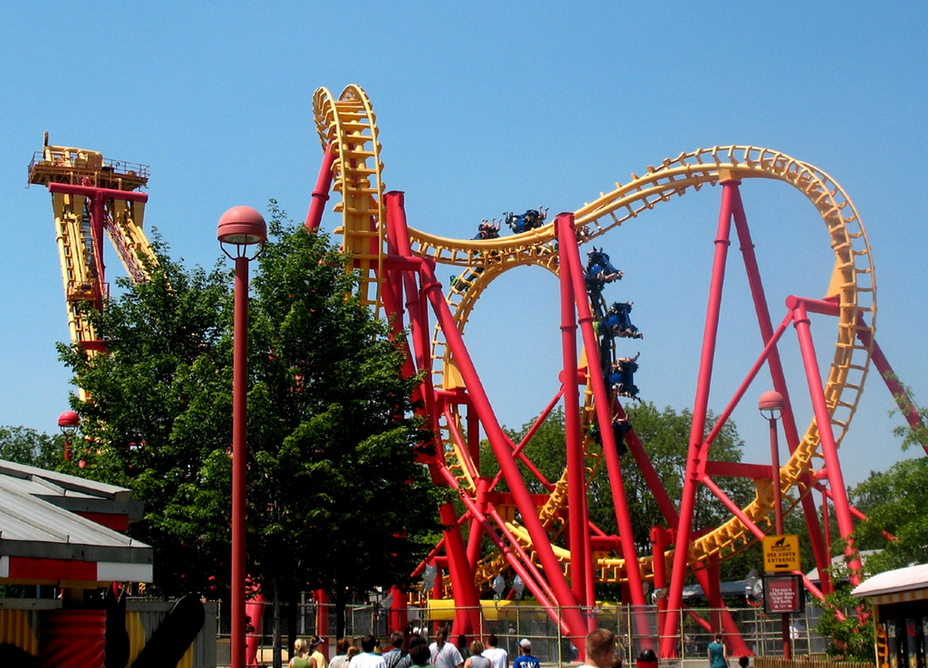 Invertigo , montagnes russes à Kings Island